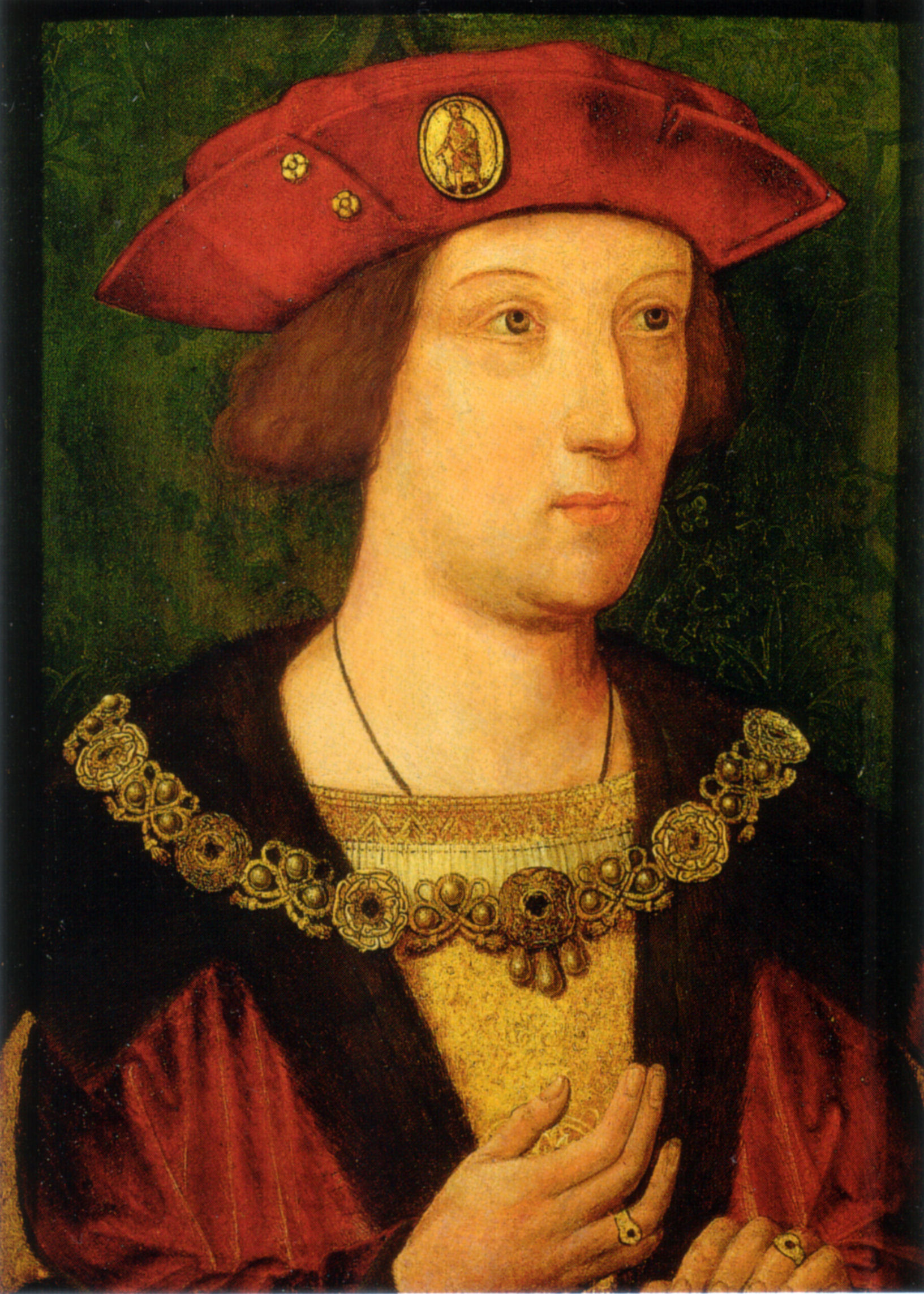 Arthur, Prince of Wales (1486-1502), wearing a collar composed of red and white Tudor roses and hat with a hat badge bearing the figure of St John the Baptist and two rosette-shaped cap hooks.